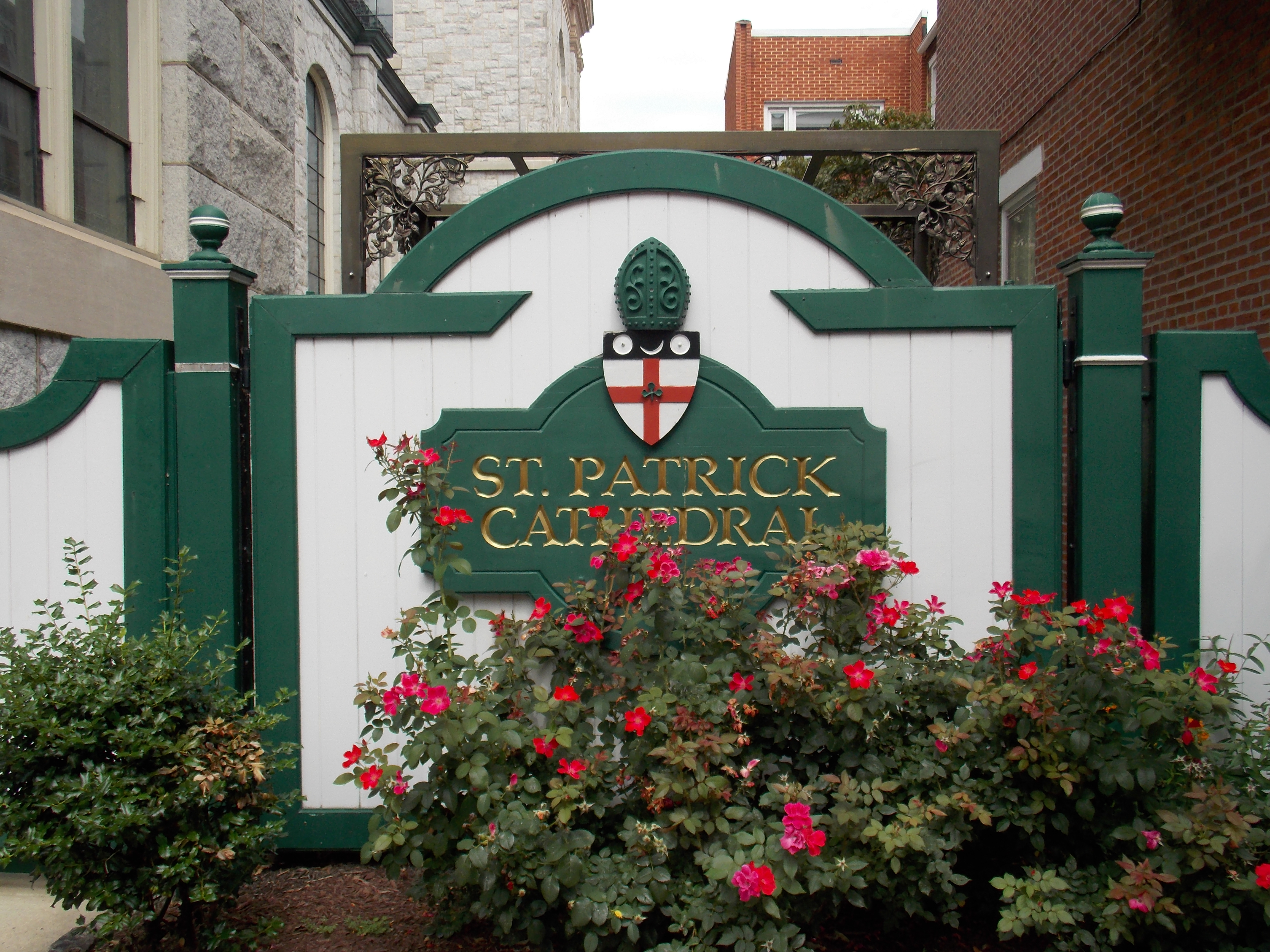 The Cathedral of Saint Patrick in Harrisburg, Pennsylvania is a contributing property in the Harrisburg Historic District.